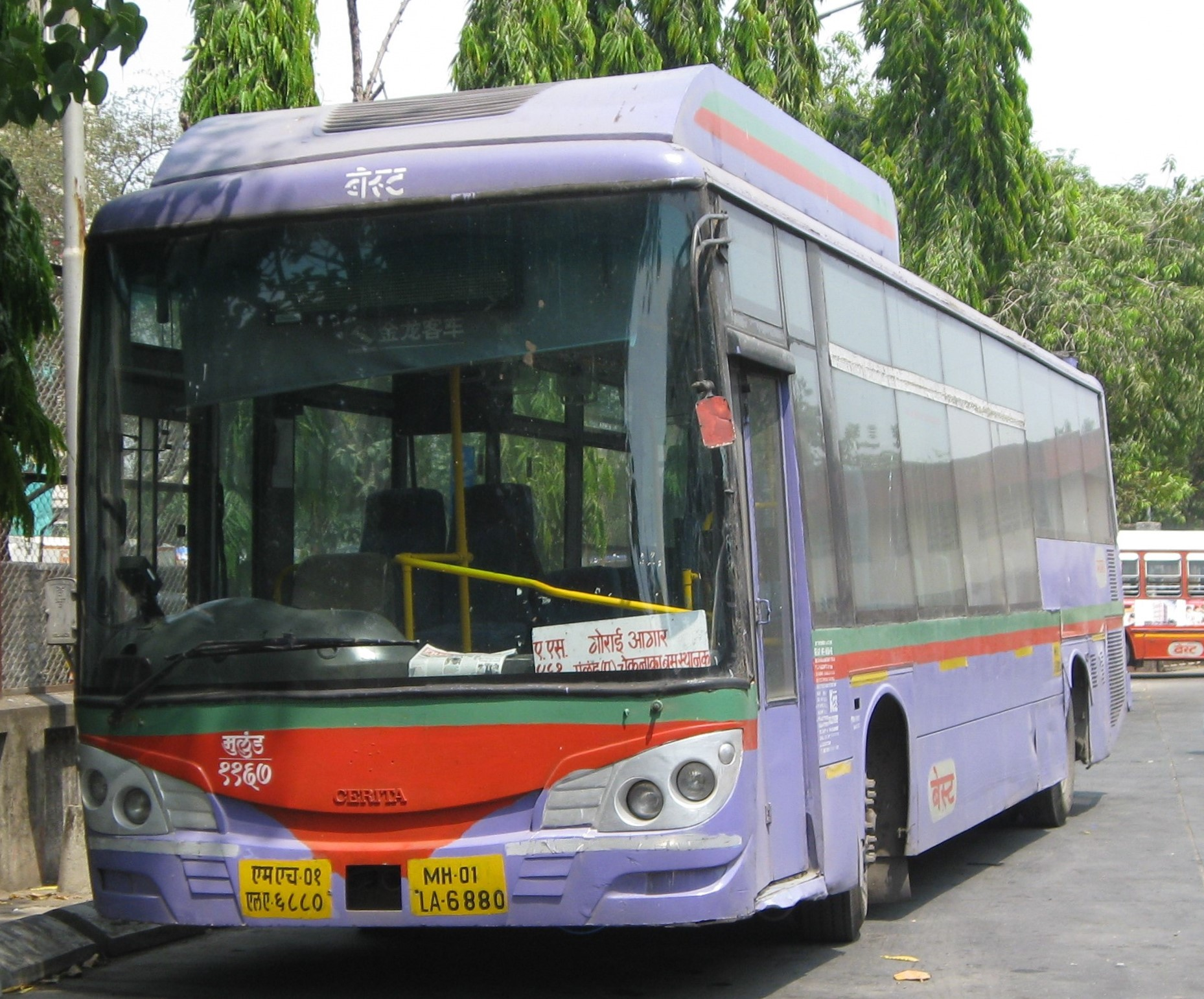 An airconditioned Bus belonging to BEST of Mumbai .